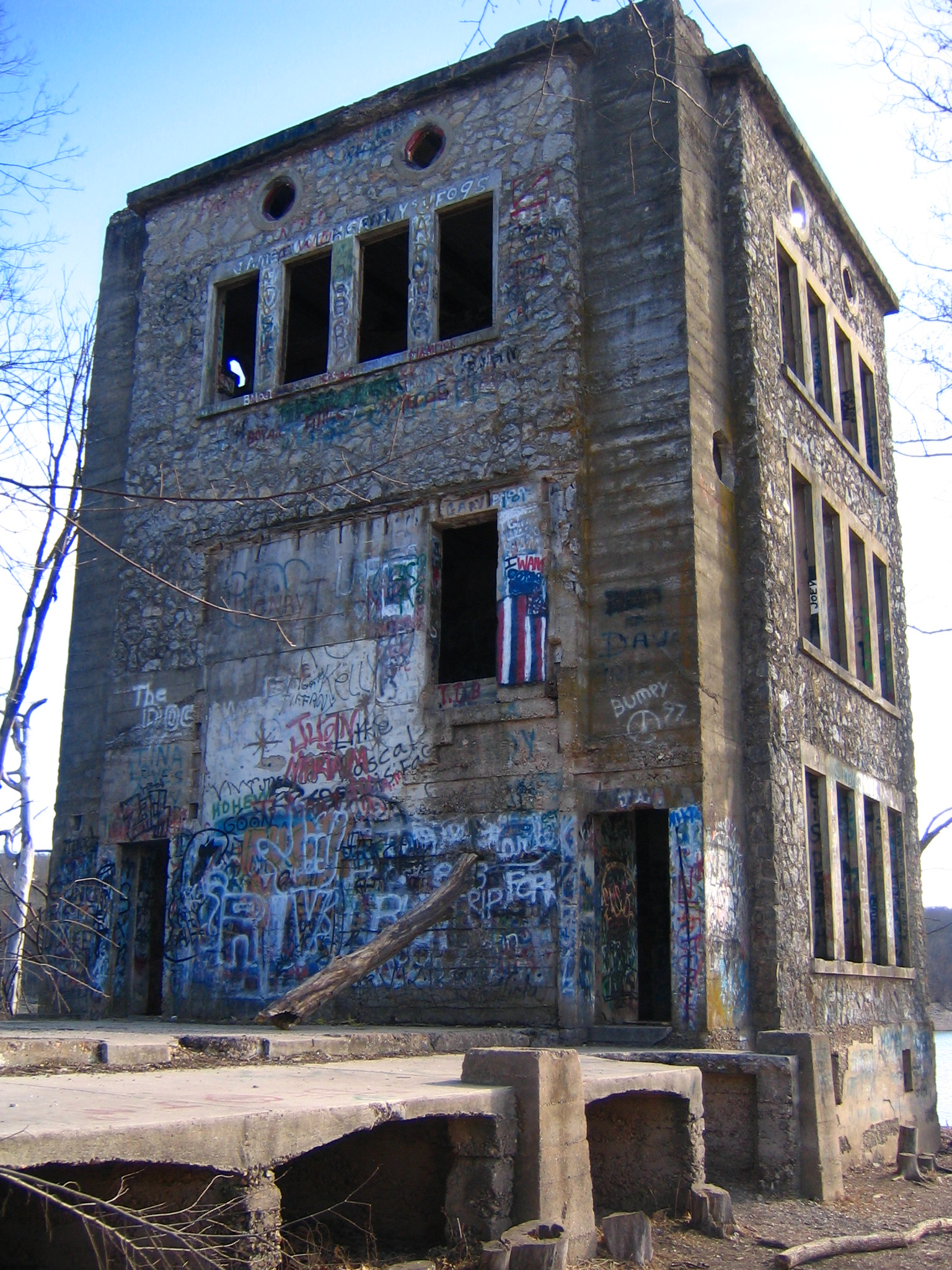 The three story tower section, the foundation, and some of the basement, are all that remain of Oklahoma Row, Monte Ne, Arkansas.